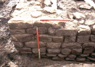 M. C. Bishop